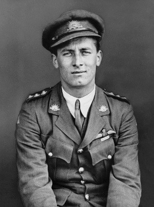 AWM caption : Portrait of Captain (Capt) Arthur Henry Cobby DSO DFC, of No. 4 Squadron, Australian Flying Corps. Capt Cobby was officially credited with the confirmed destruction in combat of twenty nine aircraft, the highest number of any Australian airman of the First World War and therefore Australia's leading 'Ace'.